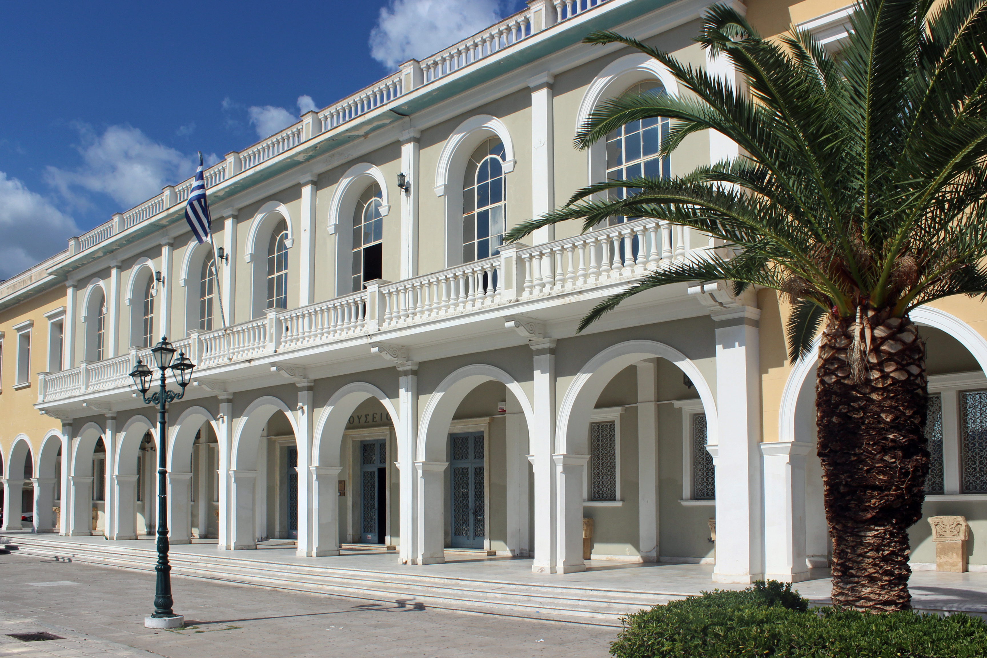 The Byzantine Museum, exterior view, at the “Platía Solomoú”, Zakynthos-City, Zakynthos, Greek Ionian Islands